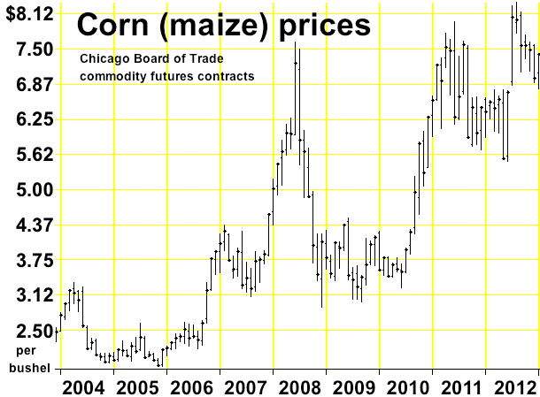 Price of corn (maize) commodity futures contracts at the Chicago Board of Trade, 2004-2012, in U.S. dollars per bushel.